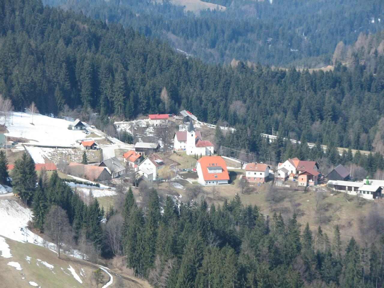 Zgornja Kapla, a village on Kozjak, Slovenia